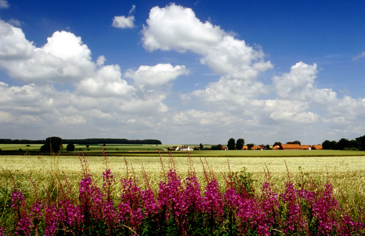 Hallerburg (right) and the wood "Hallerburger Holz" (left) in Nordstemmen, district Hildesheim, Lower Saxony, Germany.